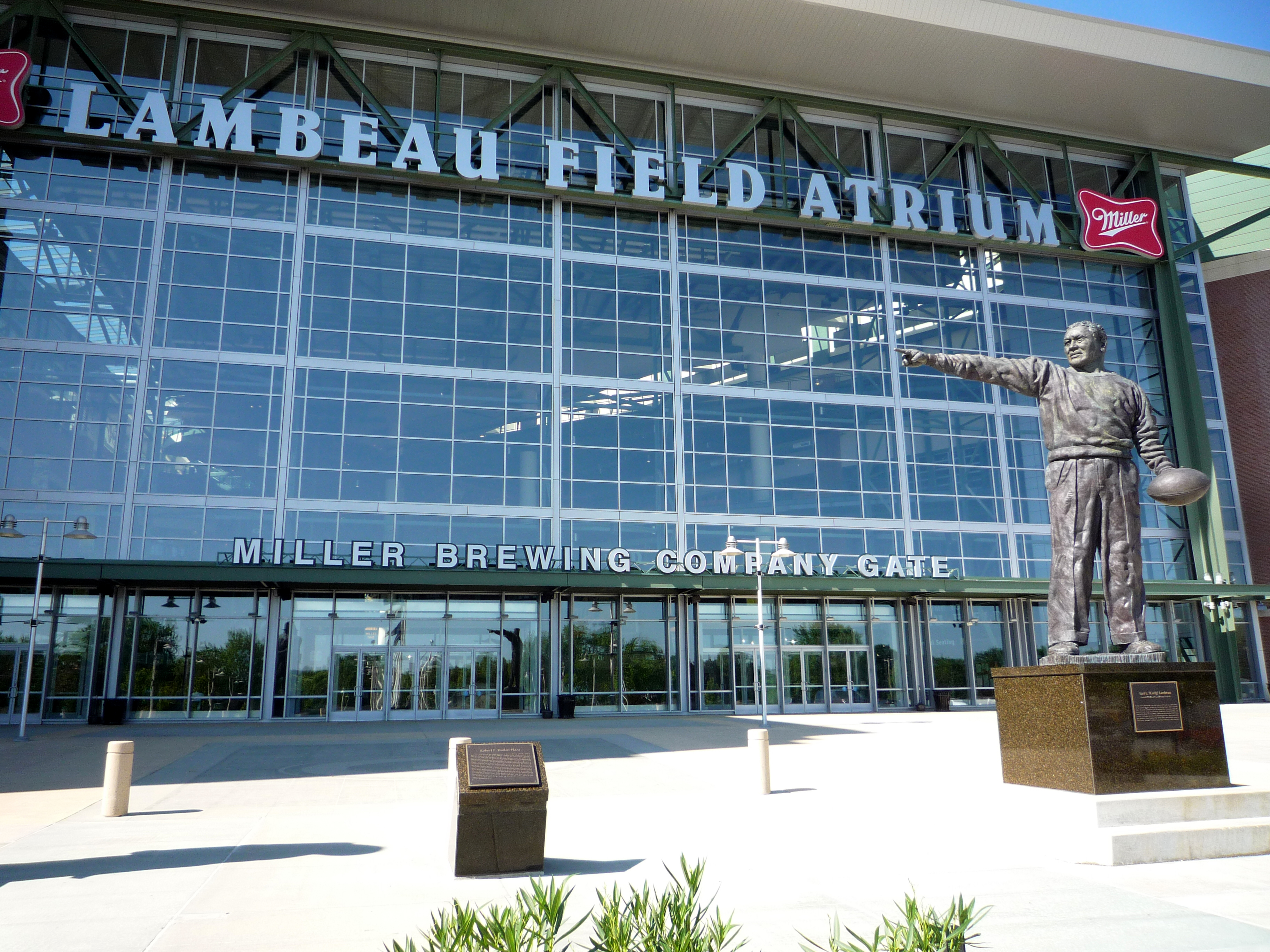 Photo taken by Bobak Ha'Eri, on June 20, 2009. Please observe license and properly cite in use outside Wikipedia. If you have any questions about the licensing, please feel free to use the contact information at my user page.